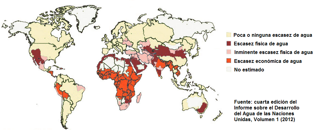 Freshwater is valuable. Of all the water on Earth, only 2.5 per cent is freshwater. And of all this freshwater, the total usable supply for ecosystems and humans is less than 1 per cent. When demand for water exceeds available supply, it results in water scarcity. Drylands are particularly vulnerable to water scarcity. The goal of the 2013 World Day to Combat Desertification is to create awareness about the risks of drought and water scarcity in the drylands and beyond, calling attention to the importance of sustaining healthy soils as part of post Rio+20 agenda, as well as the post-2015 sustainable development agenda. This year’s slogan, “Don’t let our future dry up” calls for everyone to take action to promote preparedness and resilience to water scarcity, desertification and drought. The slogan embodies the message that we are all responsible for water and land conservation and sustainable use, and that there are solutions to these serious natural resource challenges. Land degradation does not have to threaten our future. In 1994, the United Nations General Assembly declared June 17 the World Day to Combat Desertification and Drought to promote public awareness of the issue, and the implementation of the United Nations Convention to Combat Desertification (UNCCD) in those countries experiencing serious drought and/or desertification, particularly in Africa.